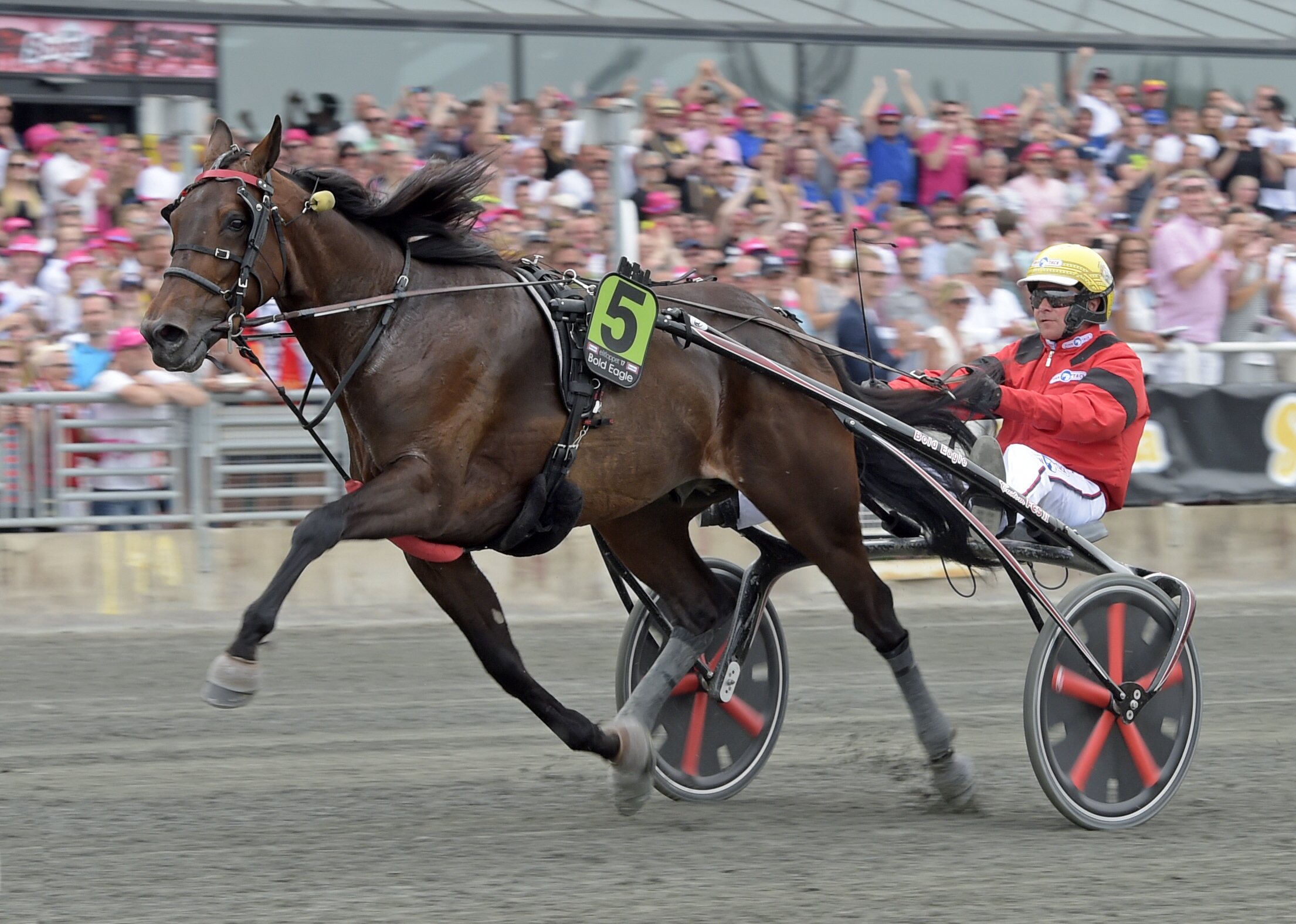 Bold Eagle and Franck Nivard, Elitloppet 2017-05-28